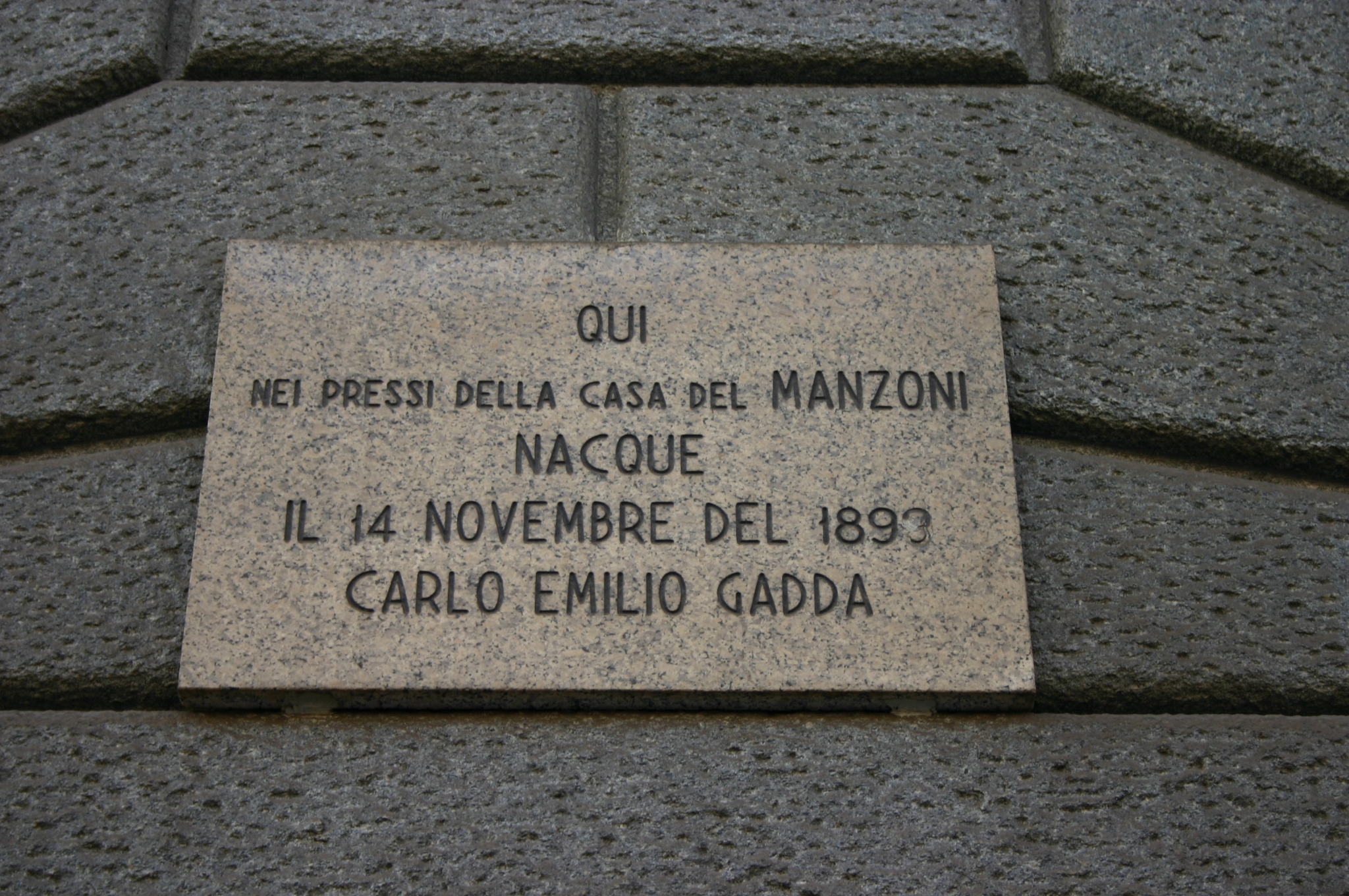 Plaque in Milan on the birthplace of Italian writer Carlo Emilio Gadda. Picture by Giovanni Dall'Orto, April 14 2007.